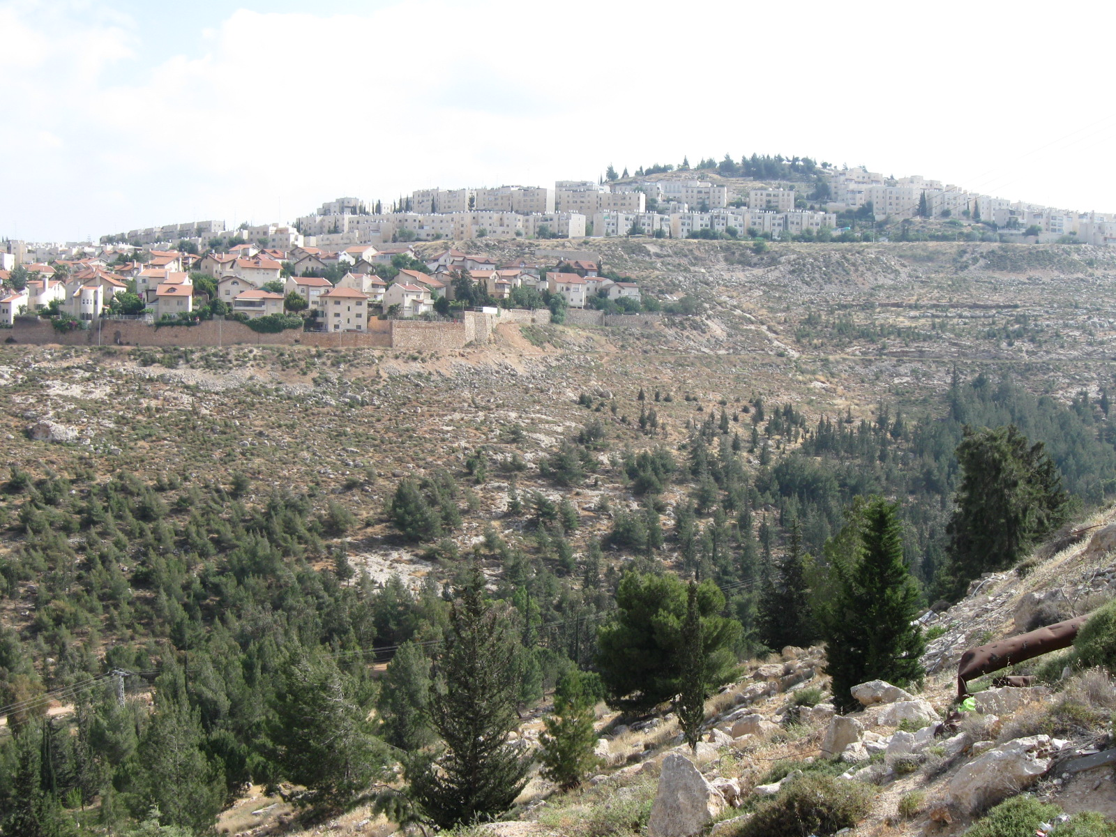 Partial view of the Mir Forest (foreground) which borders the northern Jerusalem neighborhood of Neve Yaakov. The neighborhood of Pisgat Zev North can be seen in the background.